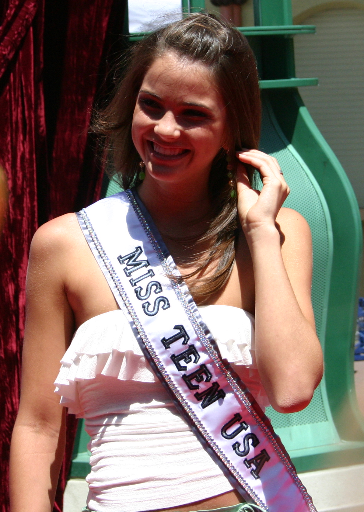 Shelley Hennig (Miss Teen USA 2004) at Princess Diaries 2 premiere. Downtown Disney, Disneyland, Anaheim, CA.